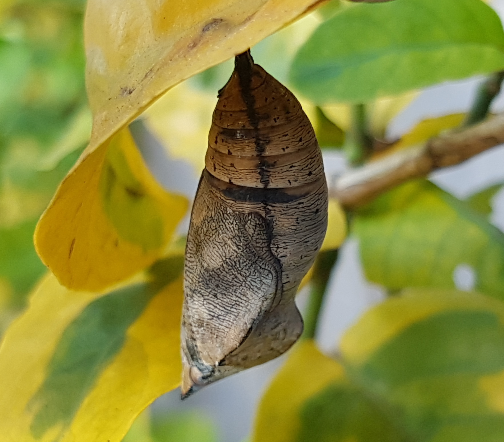 Doleschallia bisaltide philippensis (Autumn Leaf) pupa on Graptophyllum pictum (Mindanao, Philippines)